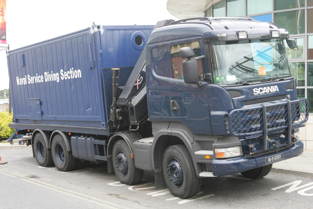 Irish Naval Service Scania 06D83917